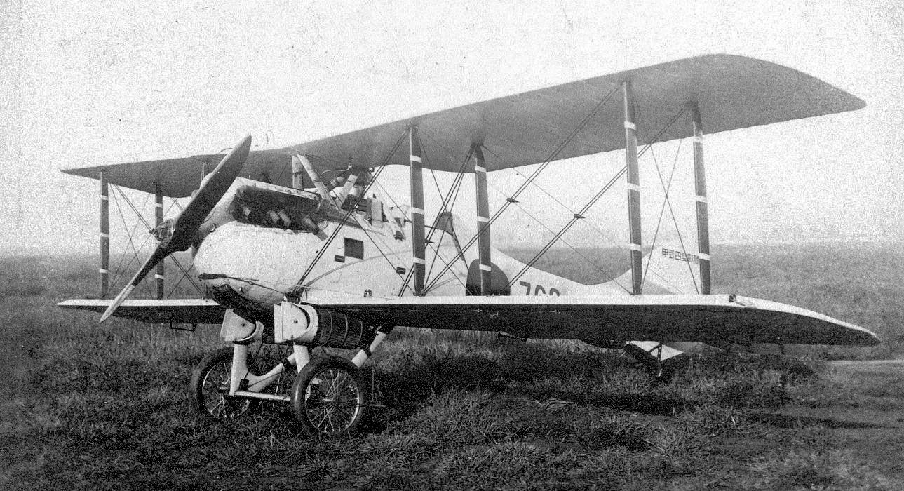 Nieuport-Delage NiD.29 C.1 fighter buult under licence in Japan by Nakajima as the Ko 4.